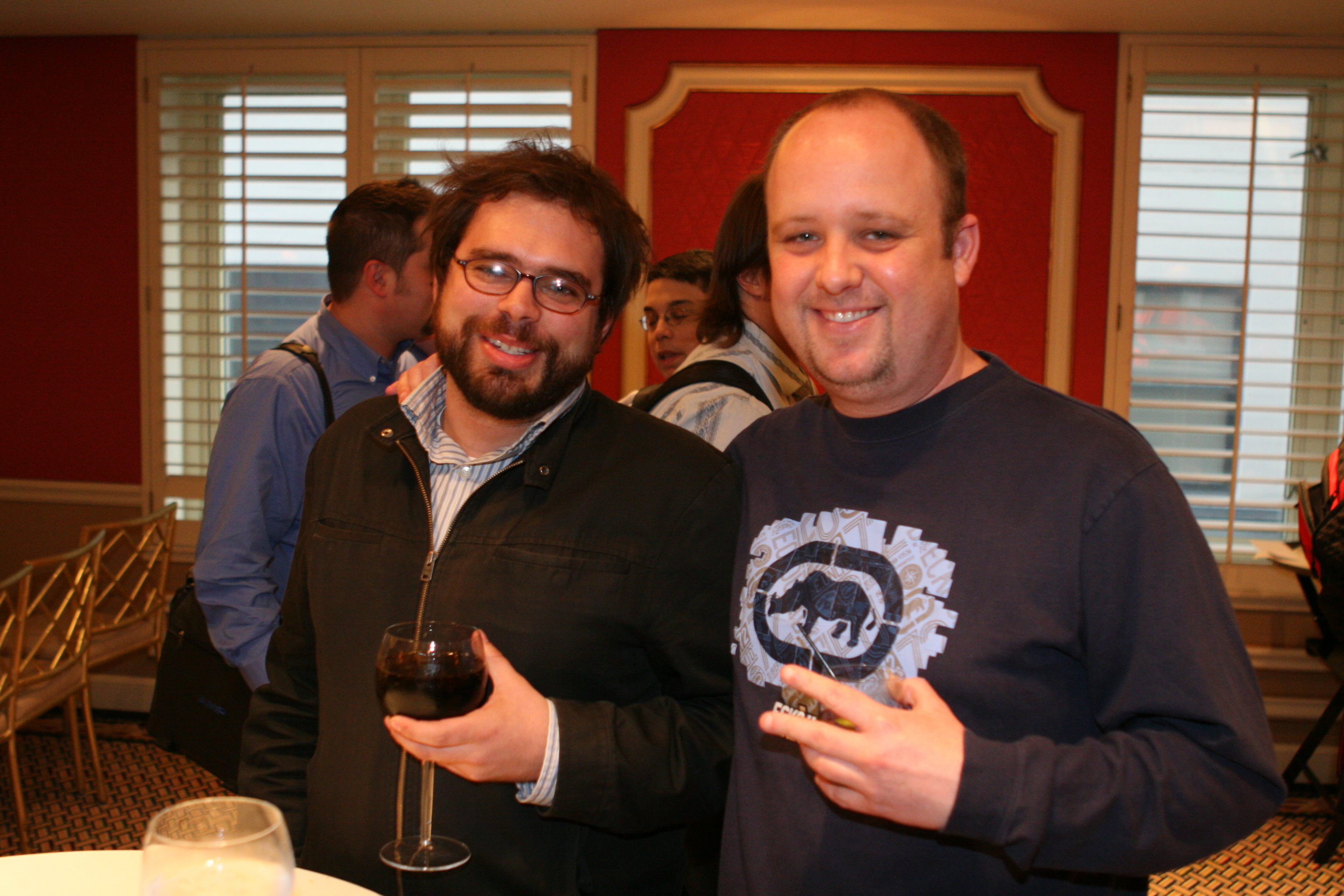 Former games journalist Luke Smith, now content editor/community manager for game developer Bungie.